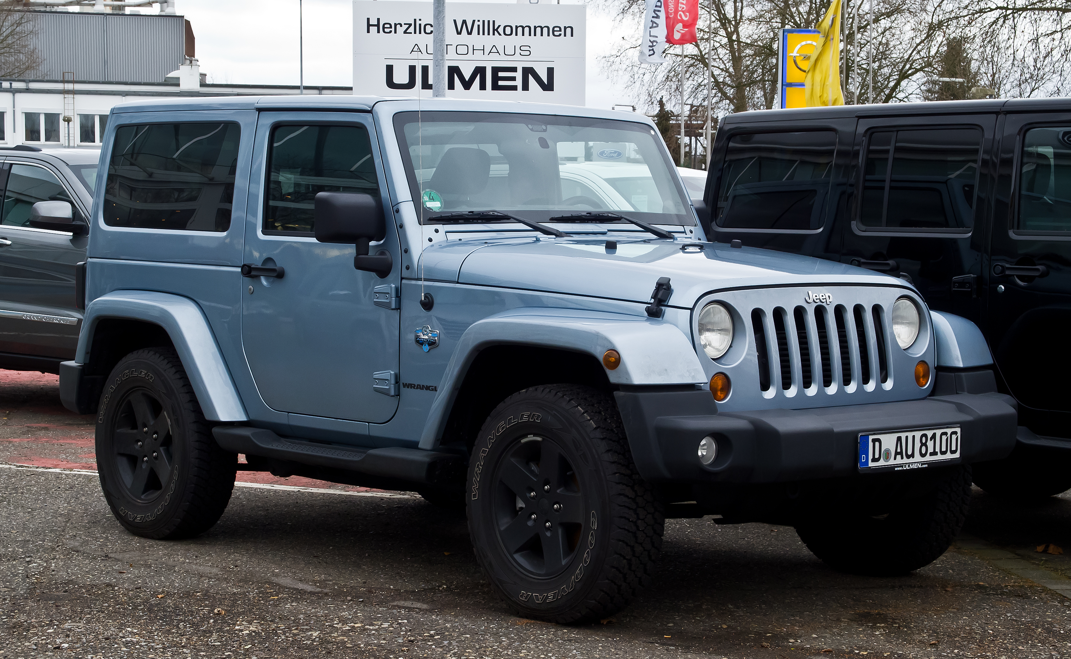 Jeep Wrangler 2.8 CRD Arctic (JK)